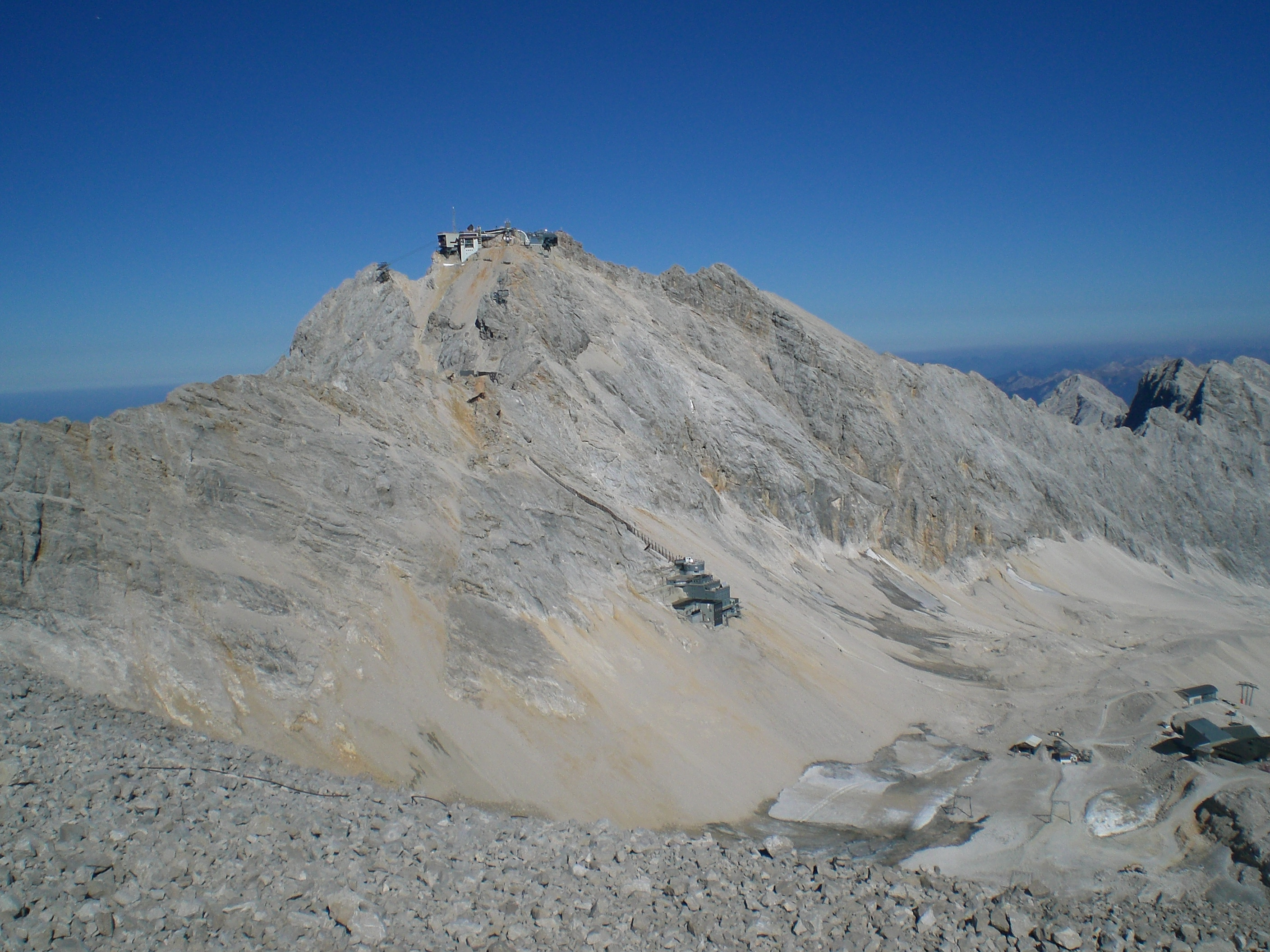 Summit of the Zugspitze seen from SW (from Schneefernerkopf), below Schneefernerhaus, a part of the northern Schneeferner and the upper station "Sonnalpin" of the Bayerische Zugspitzbahn